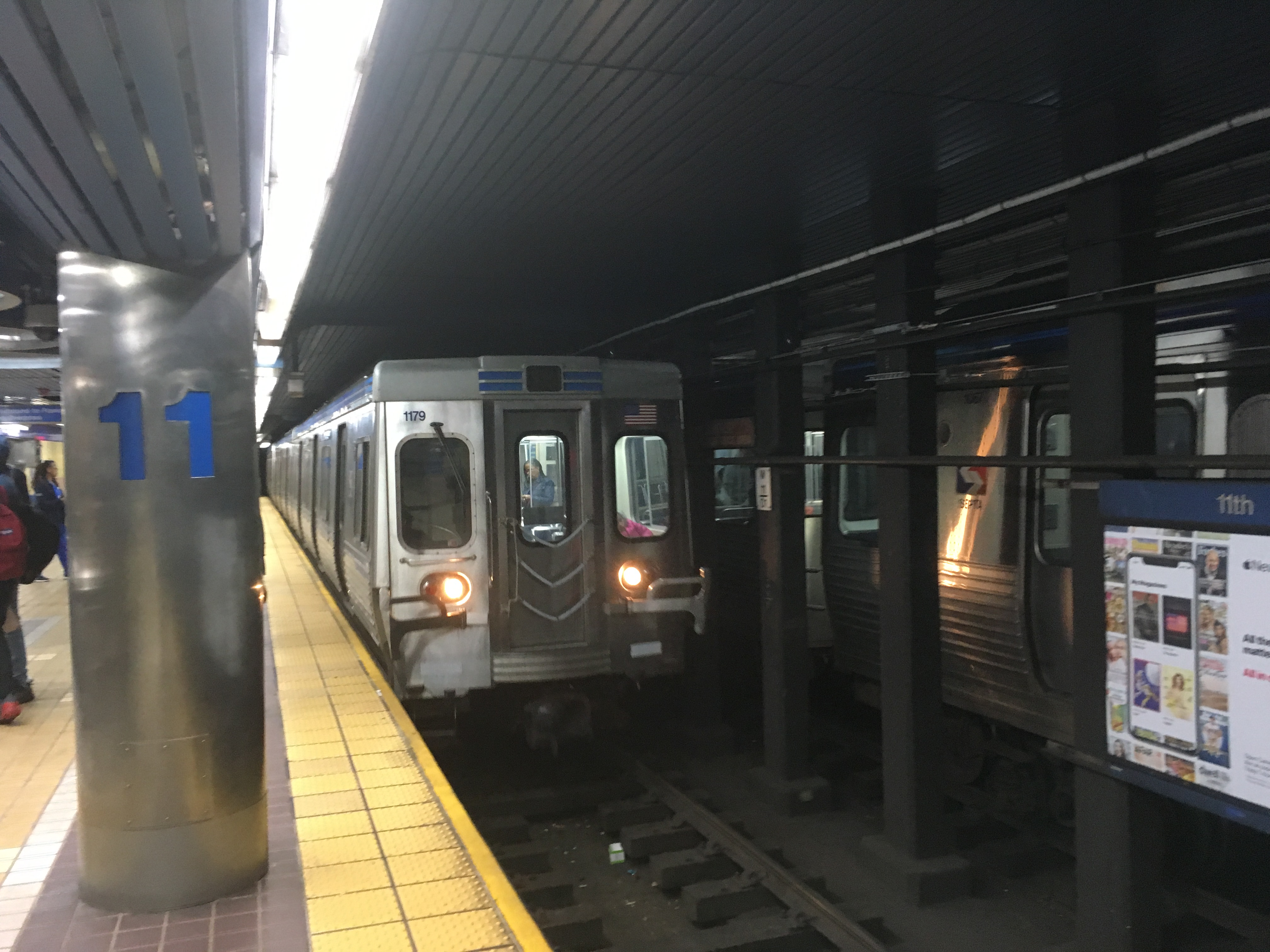 SEPTA Adtranz M-4 1179 leads a Market-Frankford Line train bound for 69th Street Transportation Center into 11th Street station in Philadelphia, Pennsylvania